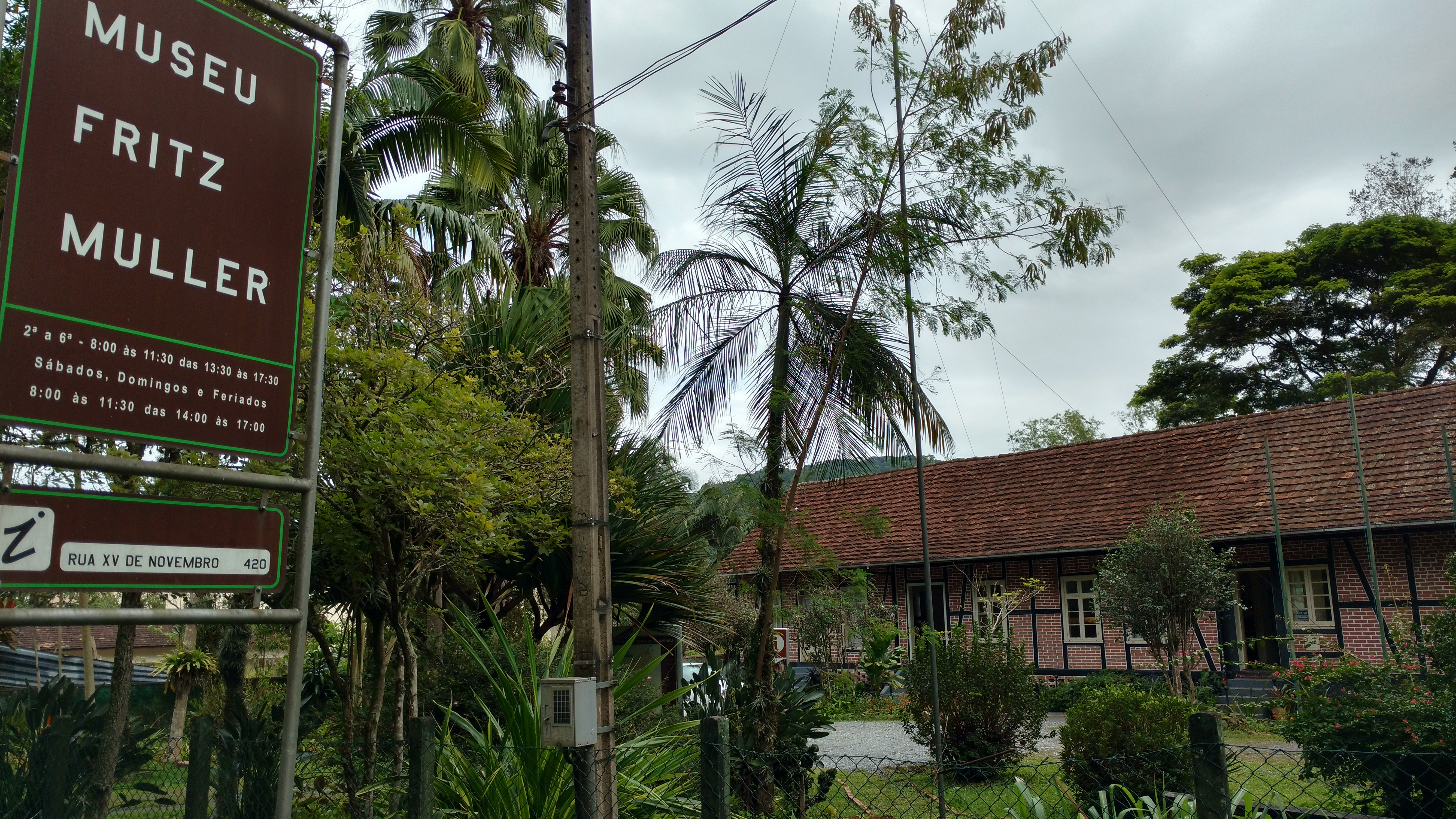 The Fritz Müller museum, located in Blumenau (SC), Brazil.